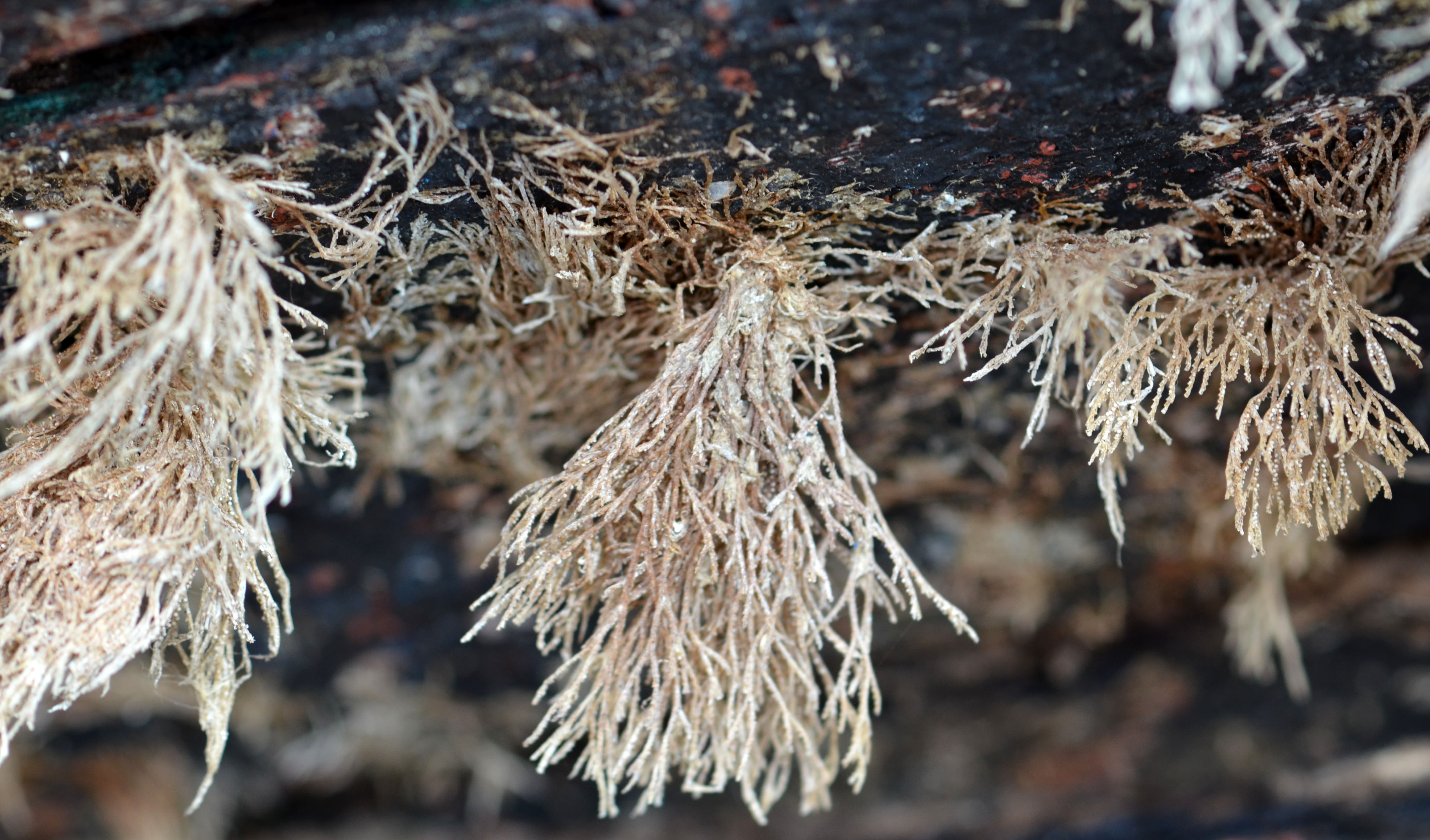 Dead invertebrate organisms (biofouling). These organizations have grown attached under the hull of a wooden fishing boat, hauled here for docking, the port city of Morgat (Brittany, western France)